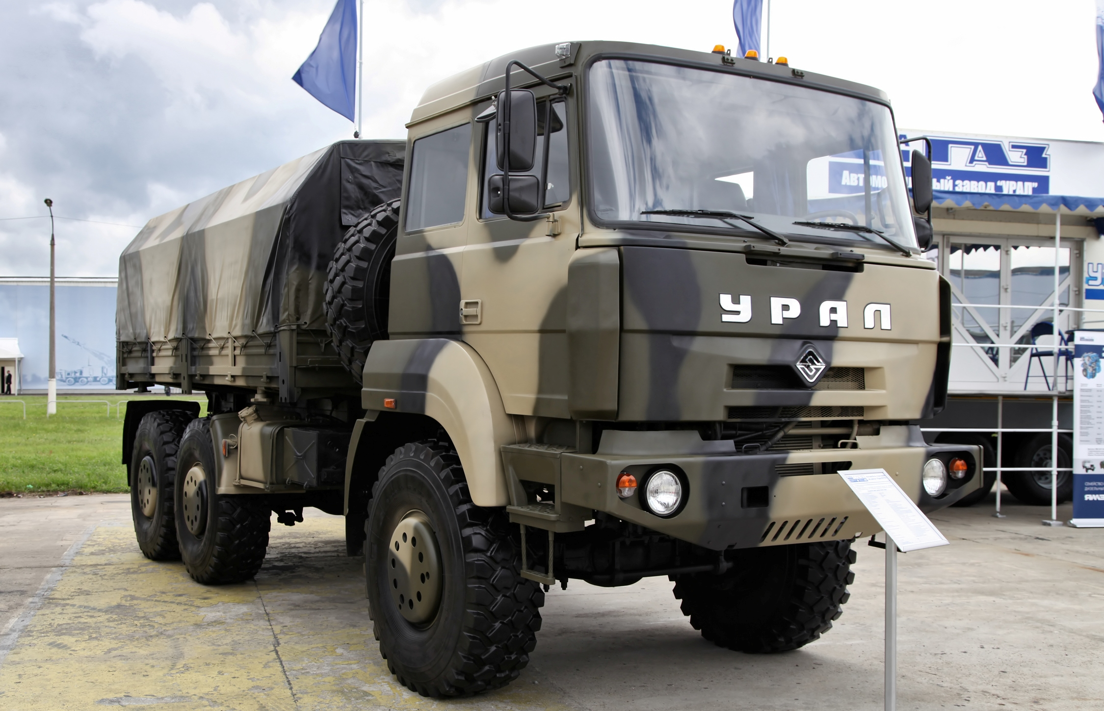 Ural-6370 at the exhibition Engineering technologies 2012.